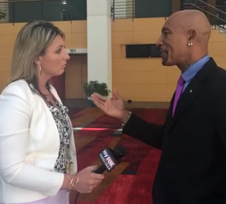 Caiazzo (left) interviewing Montel Williams